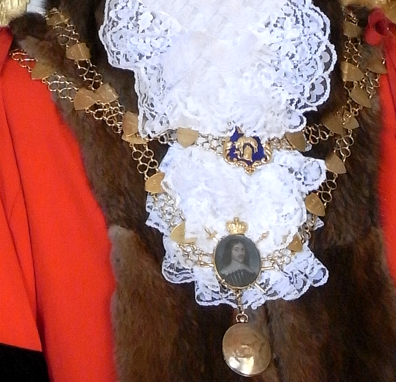 Mayor's Chain of Office, Mayor of South Molton, Devon, made in 1893, from which hangs a miniature portrait of Hugh Squier (d.1710), the town's "great benefactor". (Source: Morey, Gertrude, Hugh Squier of South Molton, 1625-1710; A Note of his Founding of the Free School in South Molton, his Will and his Benefactions to the Town, published in Devon Historian, Vol. 23, 1981, pp.7-11, p.11)